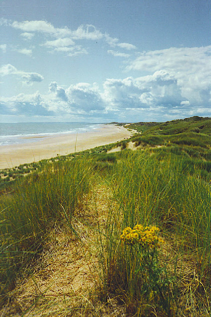 The Sands of Forvie.